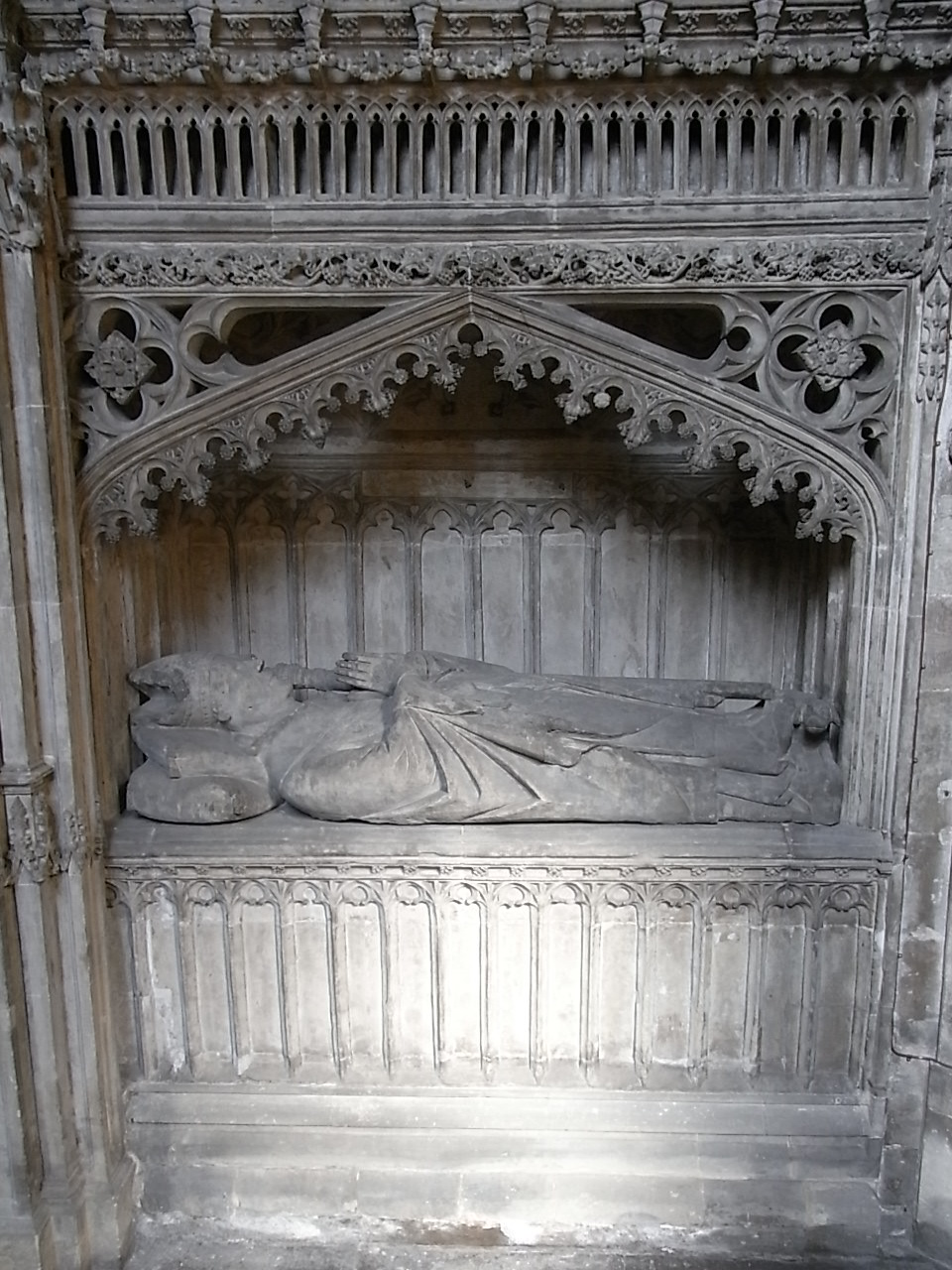 Tomb of Miles Salley(d.1516), Bishop of Llandaff. The Gaunt's Chapel, Bristol, north wall of chancel.